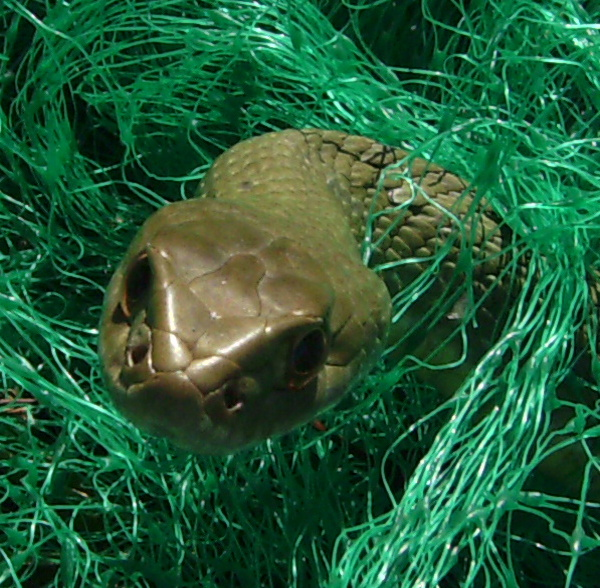 Malpolon monspessulanus, the head between a plastic net. Casteltallat, Catalonia